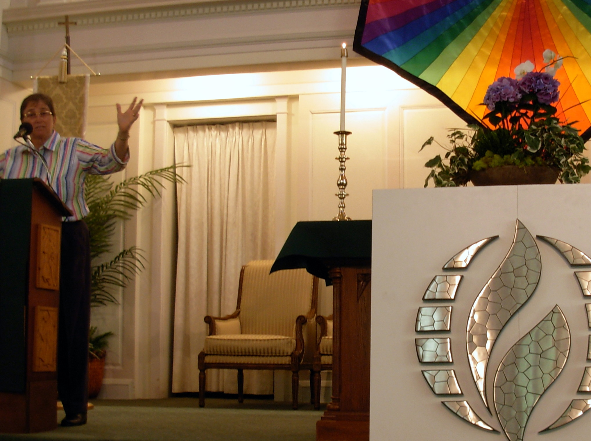 The Reverend Elder Nancy Wilson with the Metropolitan Community Church logo in front of the altar at a regional conference of the church denomination at All God's Children MCC in Minneapolis, Minnesota